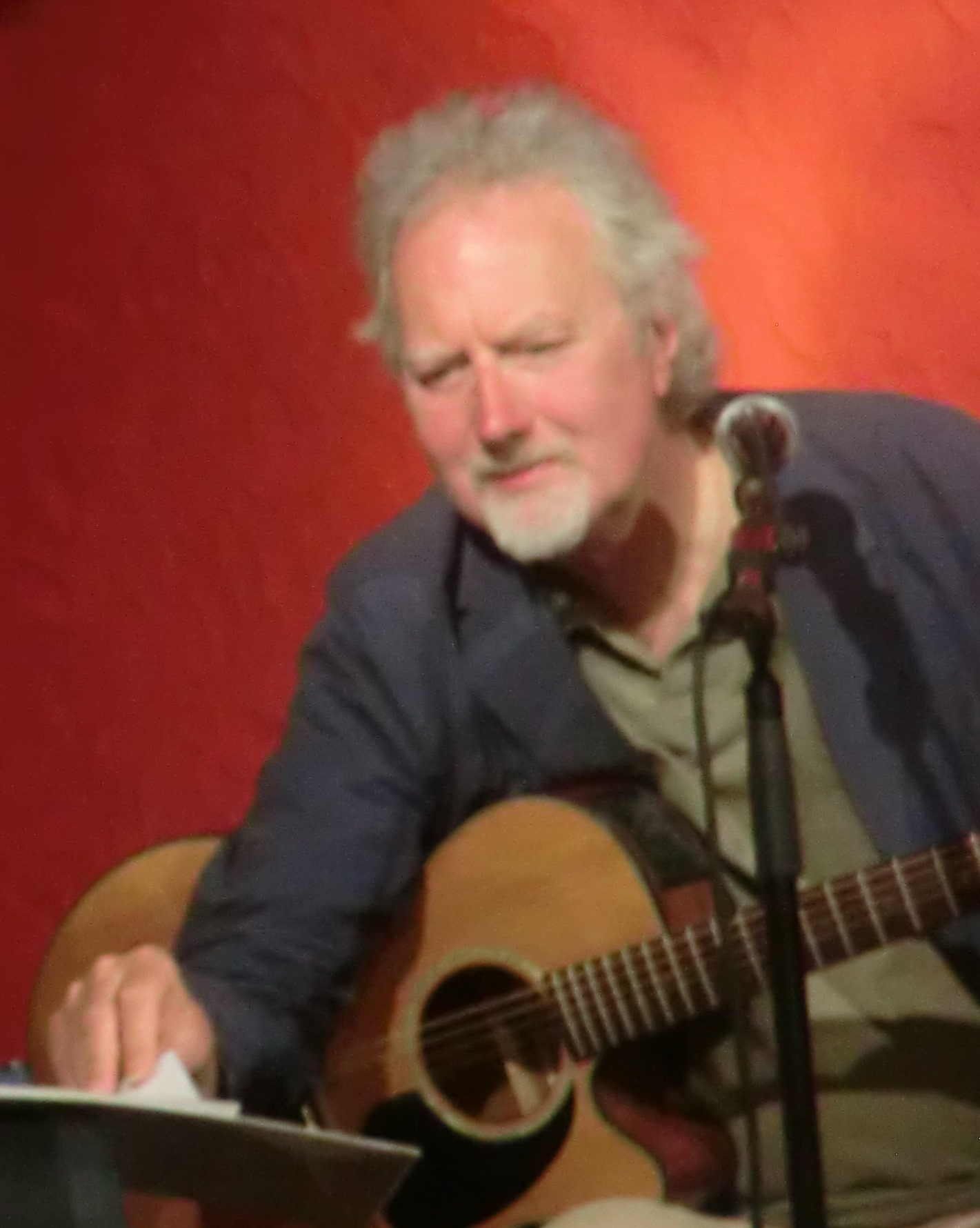 Oliver Whitehead in Spain, 2013